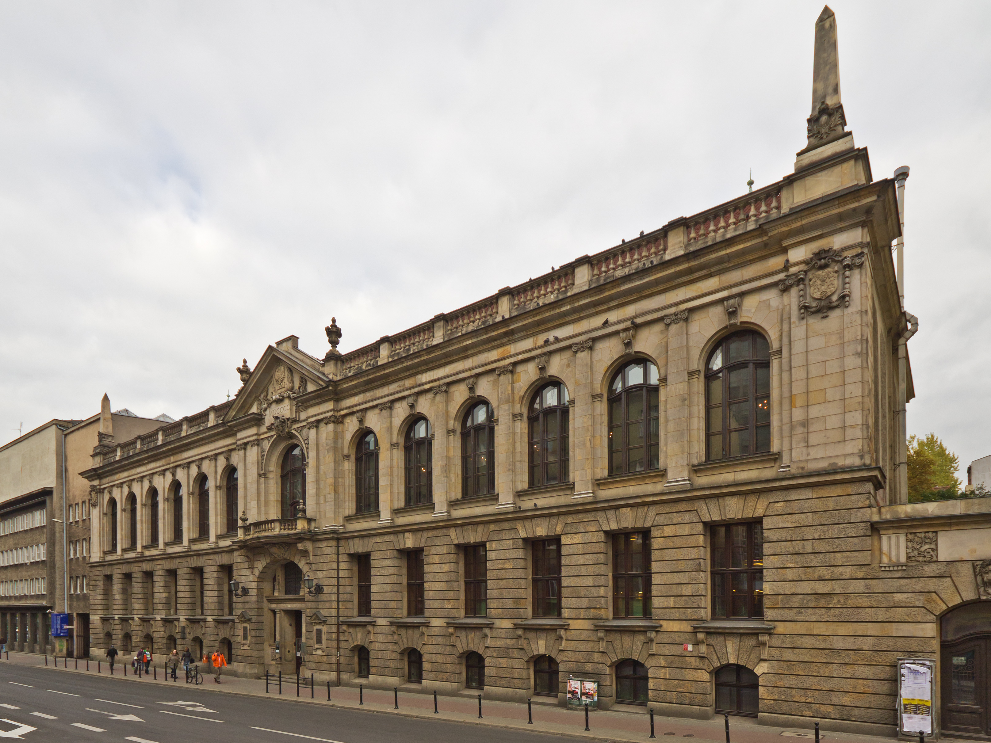 Building of the University Library in Poznań, Greater Poland